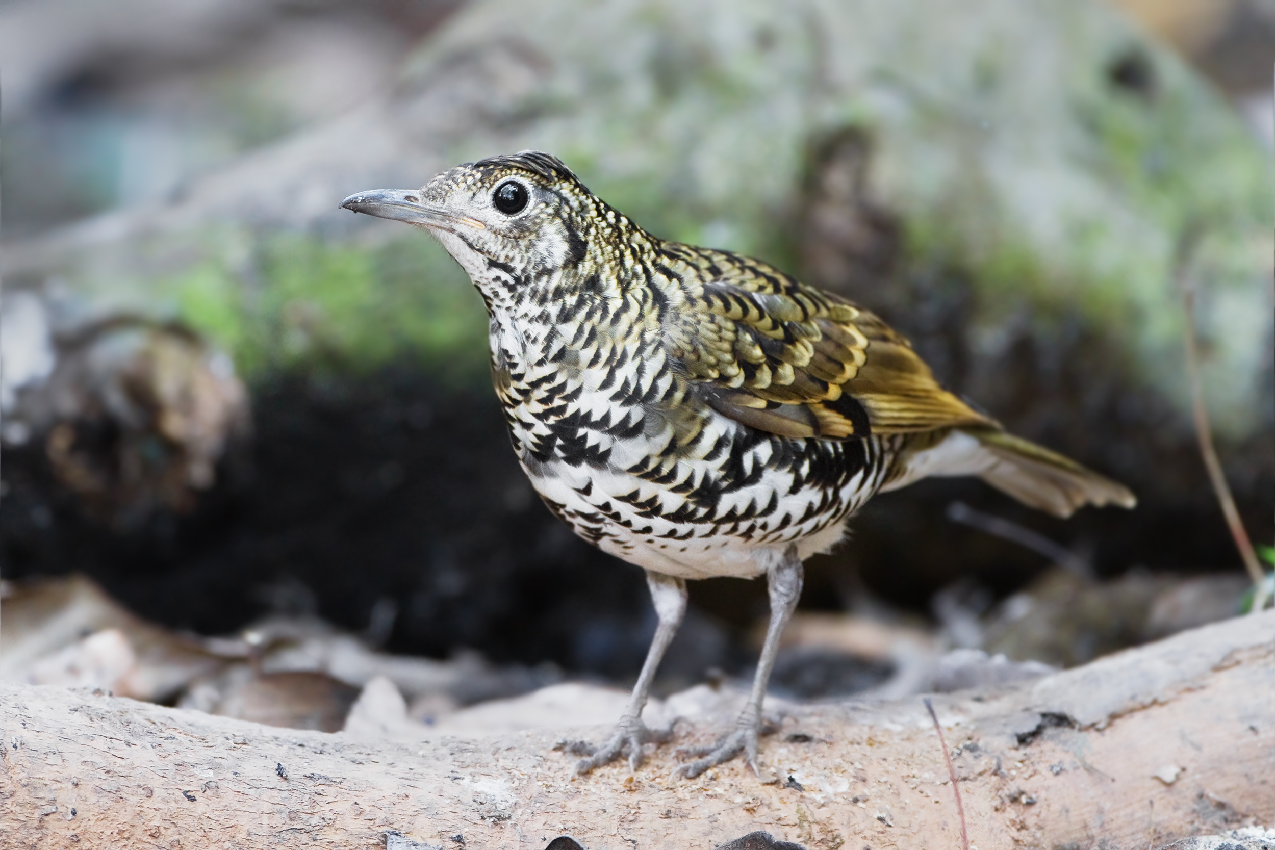 Scaly Thrush (Zoothera dauma), Royal Agricultural Station, Ang Khang, Mon Pin, Chiang Mai, Thailand